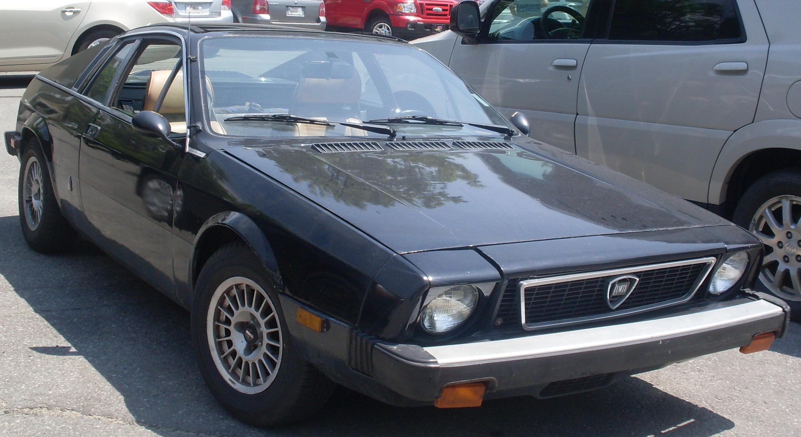 Lancia Beta Montecarlo photographed in Hudson, Quebec, Canada at Auto classique Hudson.